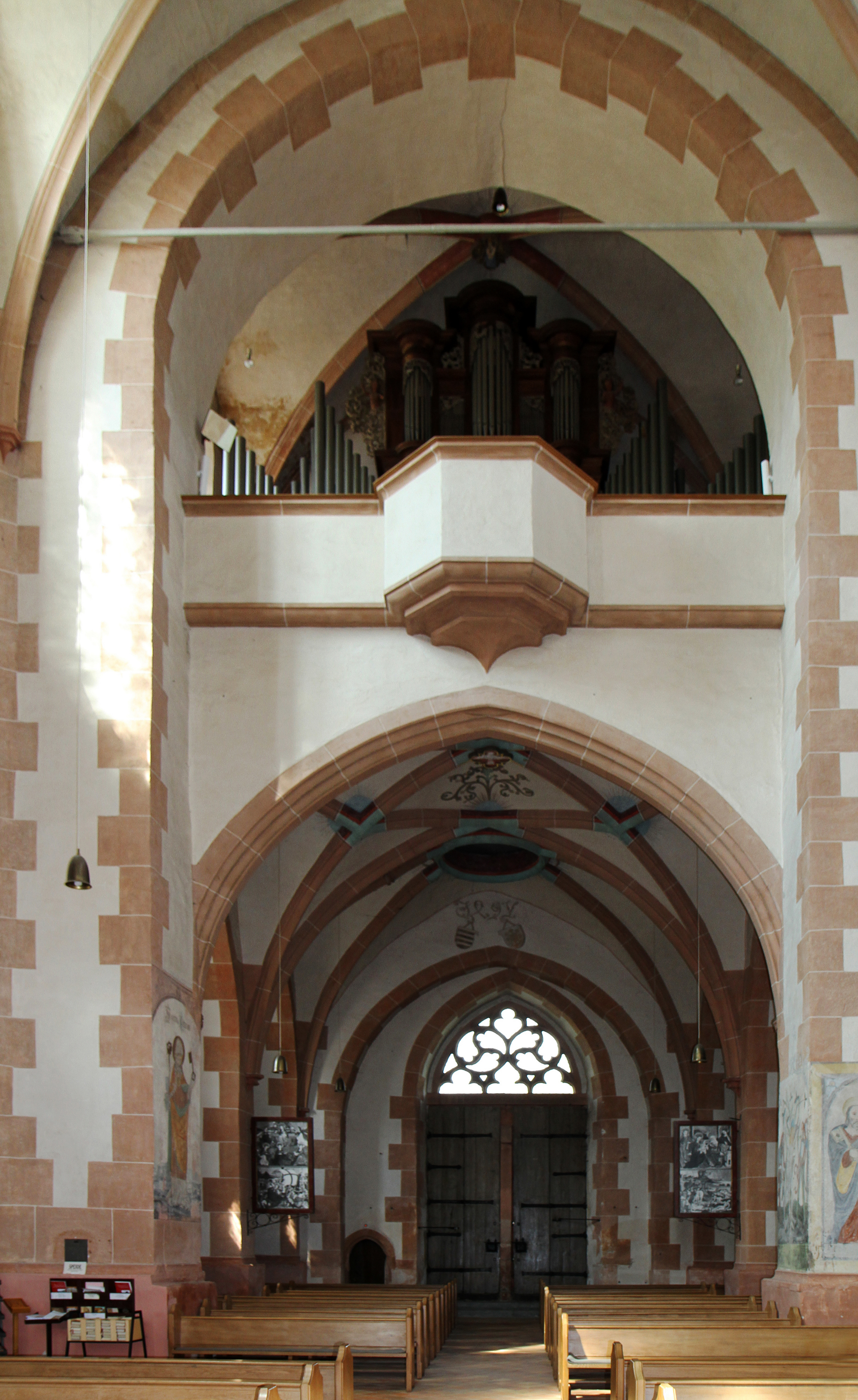 Imterior of Saint Martin’s Church Oberwesel